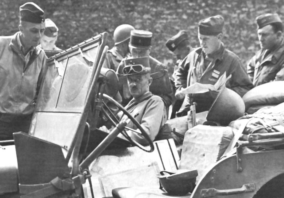 General Philippe Leclerc de Hautecloque